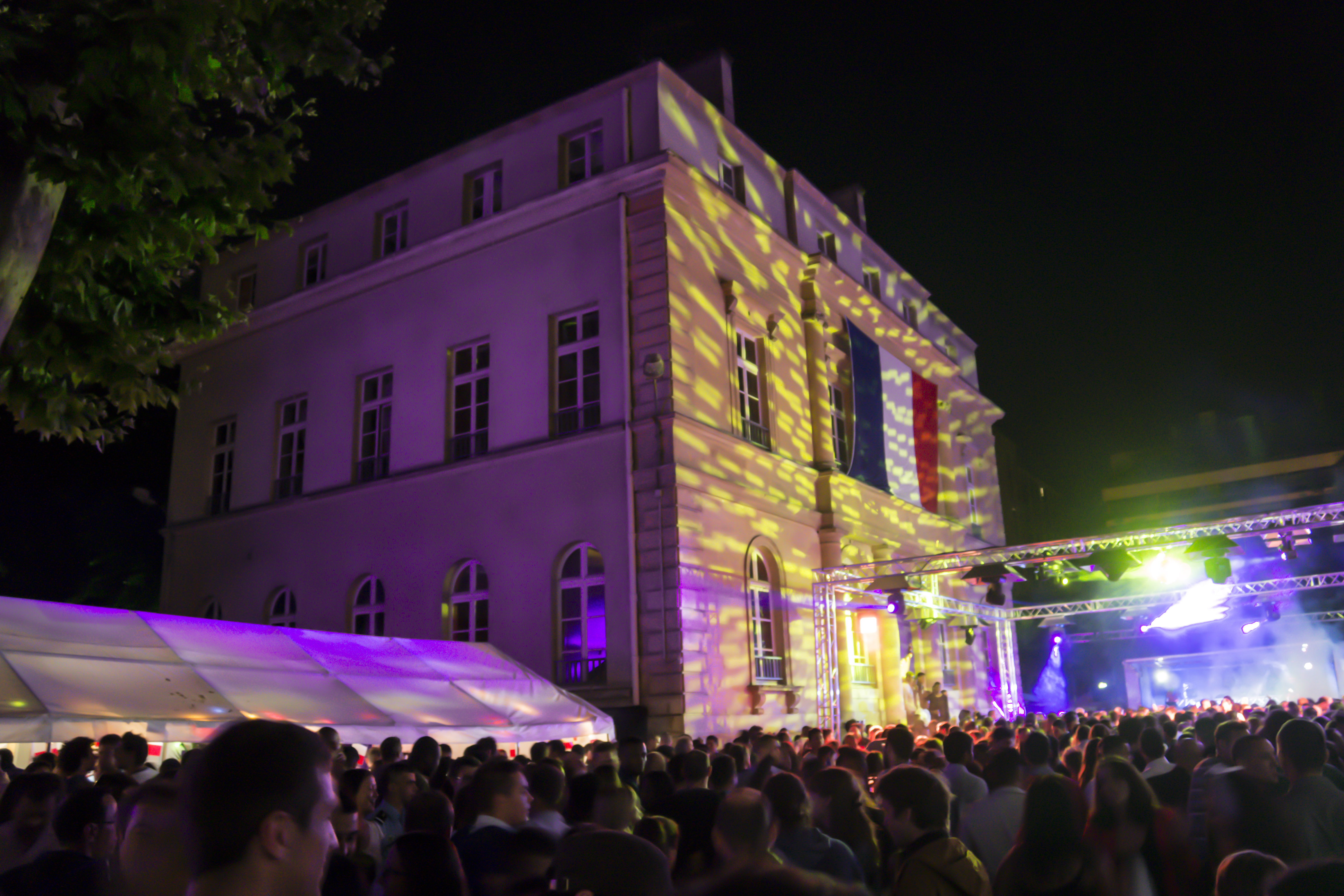 Pavillon Violet in Paris, France, during the annual Bal des pompiers, 2016